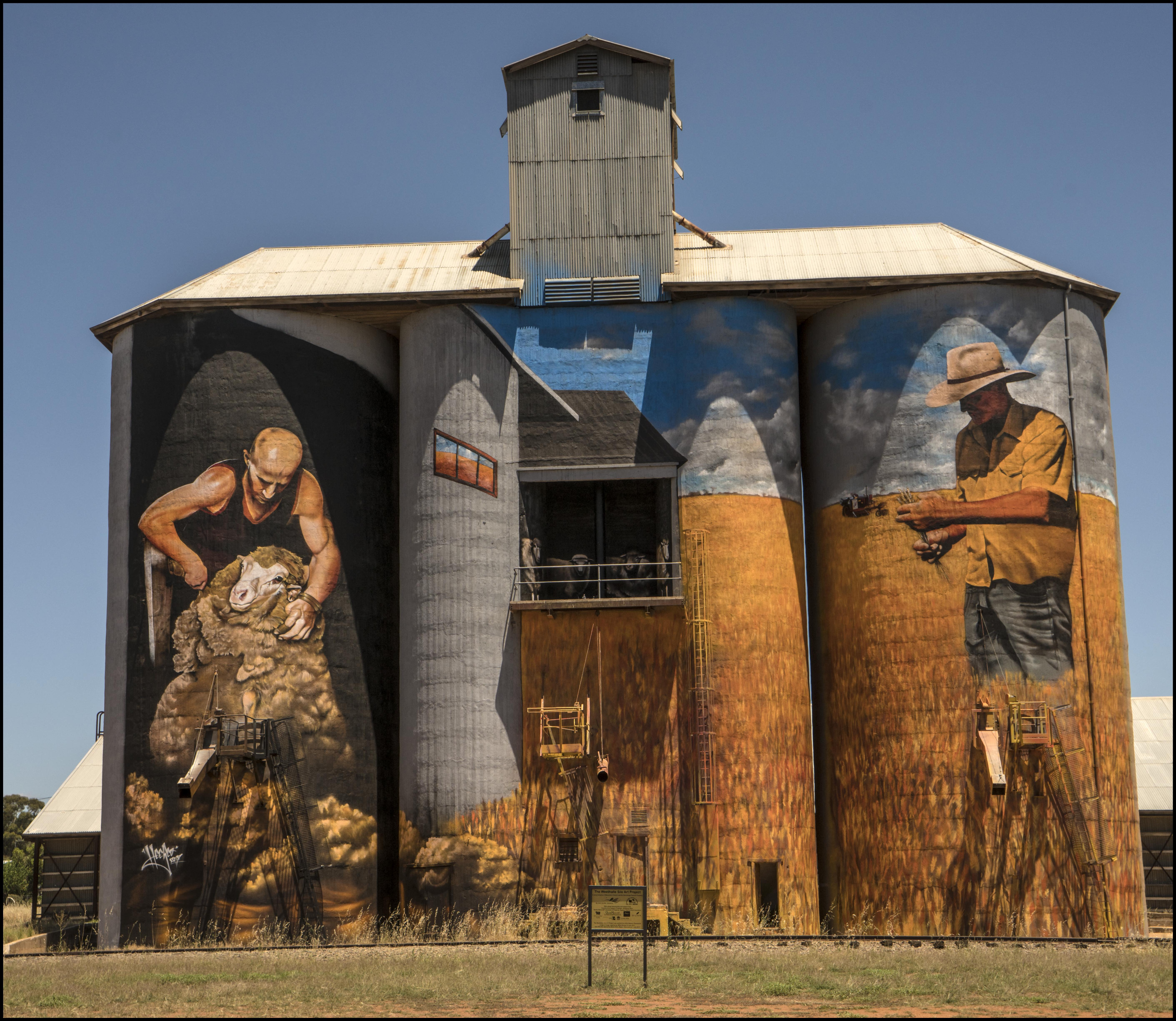 Mural Painted Grain Silos NSW. Weethalle is a town in the Central West region of New South Wales, Australia. The town is in the Bland Shire local government area and on the Mid-Western Highway, 526 kilometres west of the state capital